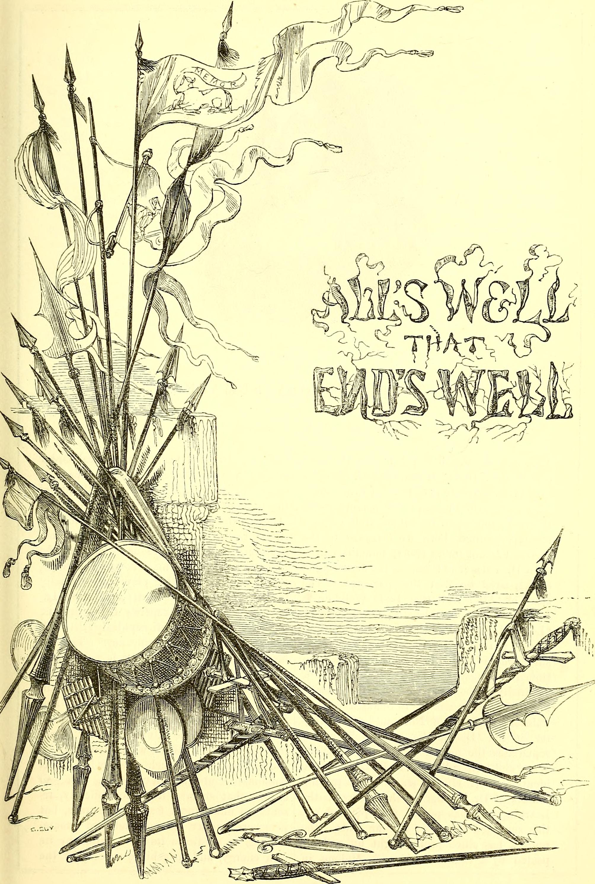 Title: The comedies, histories, tragedies, and poems of William Shakspere Year: 1851 (1850s) Authors: Shakespeare, William, 1564-1616 Knight, Charles, 1791-1873 Subjects: Shakespeare, William, 1564-1616 Publisher: London : Charles Knight Text Appearing Before Image: ' Text Appearing After Image: '